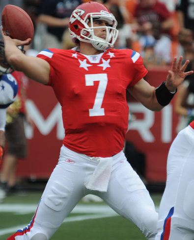 HONOLULU, Hawaii - The 2011 Pro Bowl takes place on the island of Oahu, Hawaii after a two-year break on Jan. 30, where the event was held in Miami, Fla. the previous year. The event was previously held the week after the Super Bowl, but has been moved to the week prior to the Super Bowl in order to spark more interest in the Pro Bowl (U.S. Air Force photo/Master Sgt. Cohen A. Young)